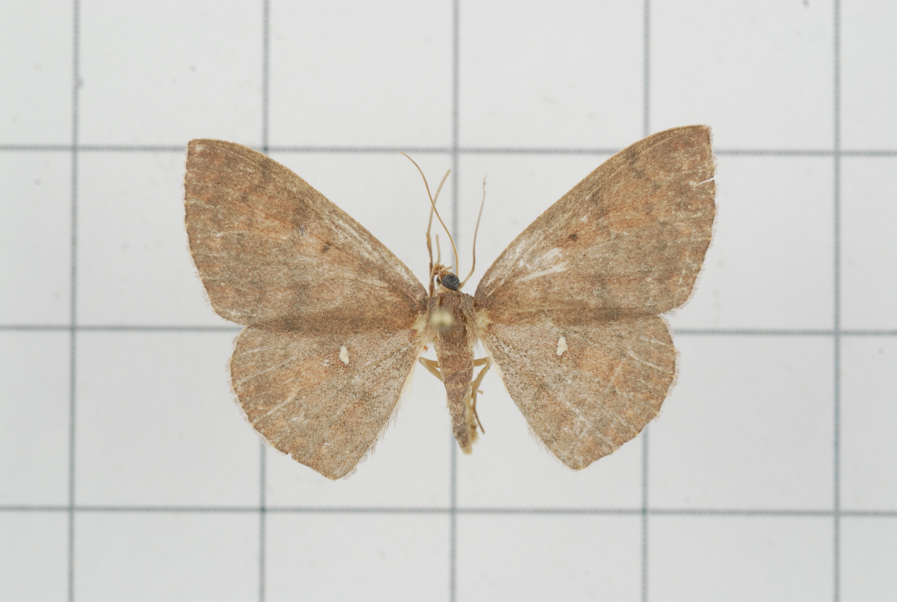 description [ 科名 : Geometridae 尺蛾科 ] ; [ 屬名 : Discoglypha ] ; [ 學名: Discoglypha hampsoni ] ; [ 中名: 雙點褐姬尺蛾/ ] [參考資料 : 臺灣尺蛾科圖鑑１ ; Page : 126 ]